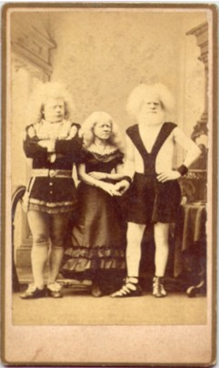 Rudolph Lucasie and his Familie were albinos of African descent. Phineas Barnum found them during a visit to Amsterdam in 1857. He brought them back to America where they became one of his most popular exhibits. Barnum billed them as being of black Madagascan lineage sleeping with their pink eyes wide open. They worked for Barnum as "living curiousities" for three years beginning in 1857. The family continued to tour throughout the world with other circuses until 1898 when Rudolph and his wife suddenly died. Along with other "living curiosites" in Barnum's employ they appeared in his American Museum on Broadway and offered life story pamphlets for sale along with their 15 cent carte de visite photographs such as those above. Other albinos in the employ of Barnum included the teenage "Amos", Charles Gorhen and during the 1880's his sideshow acts included the Martin sisters.